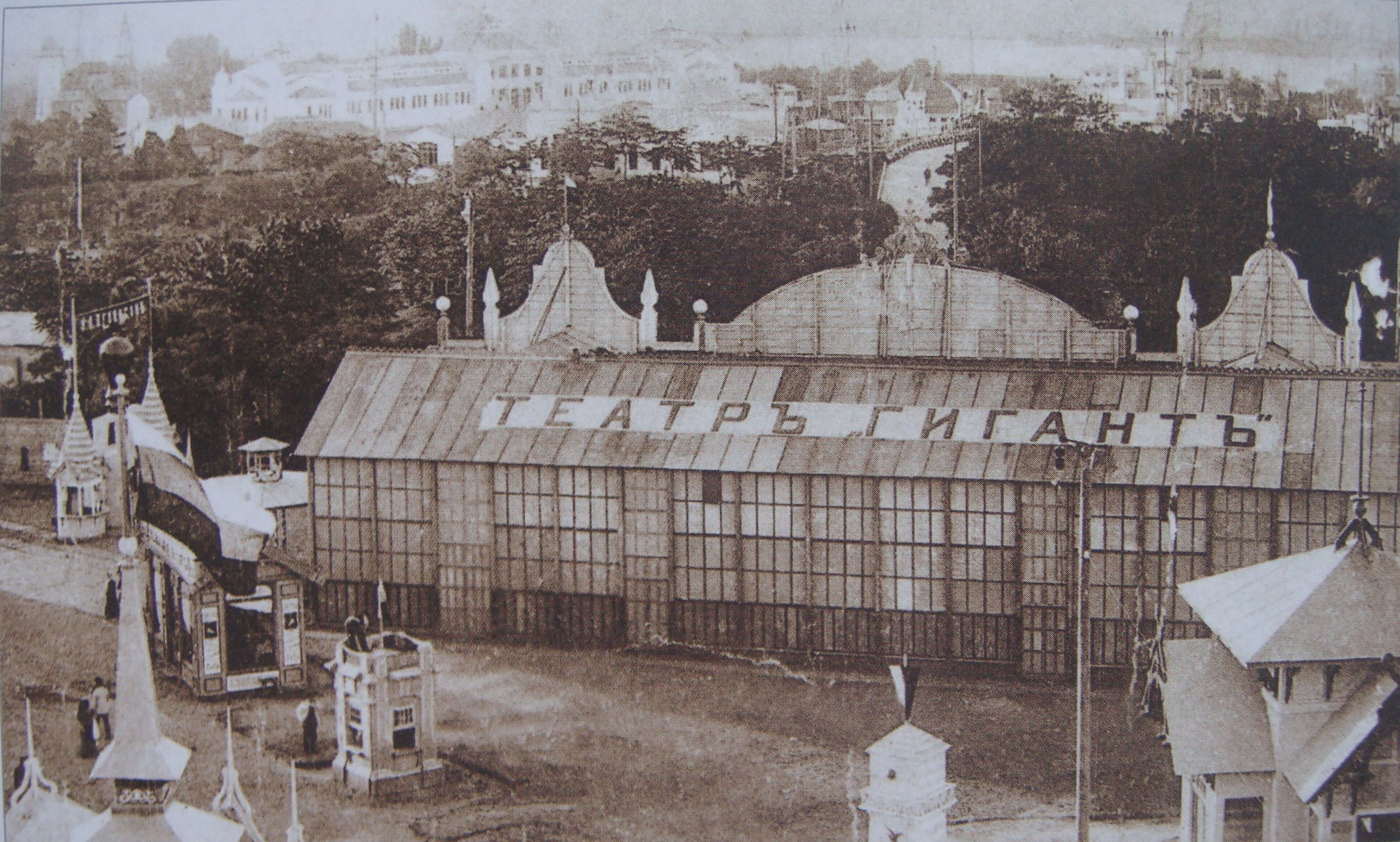 Odessa Exposition of Art & Industry. Giant Theater. 1910